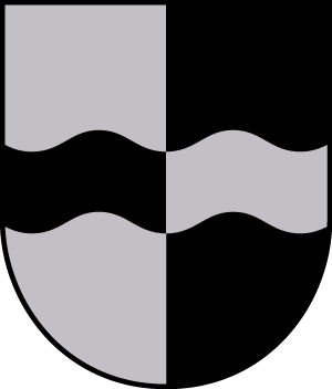 Coat of arms of former town Gostiņi (Latvia)